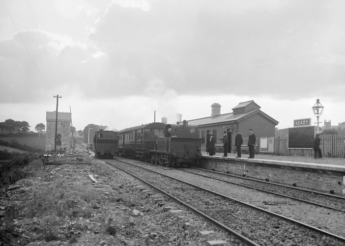 Creator: H. Allison & Co. Photographers Date: c.1910 Original Format: Glass Plate Negative Description: Keady Railway Station, train and travellers waiting on the platform. PRONI Ref: D2886/W/Portrait/57 Copying and copyright: Please For Copy Orders, contact: For fees and charges